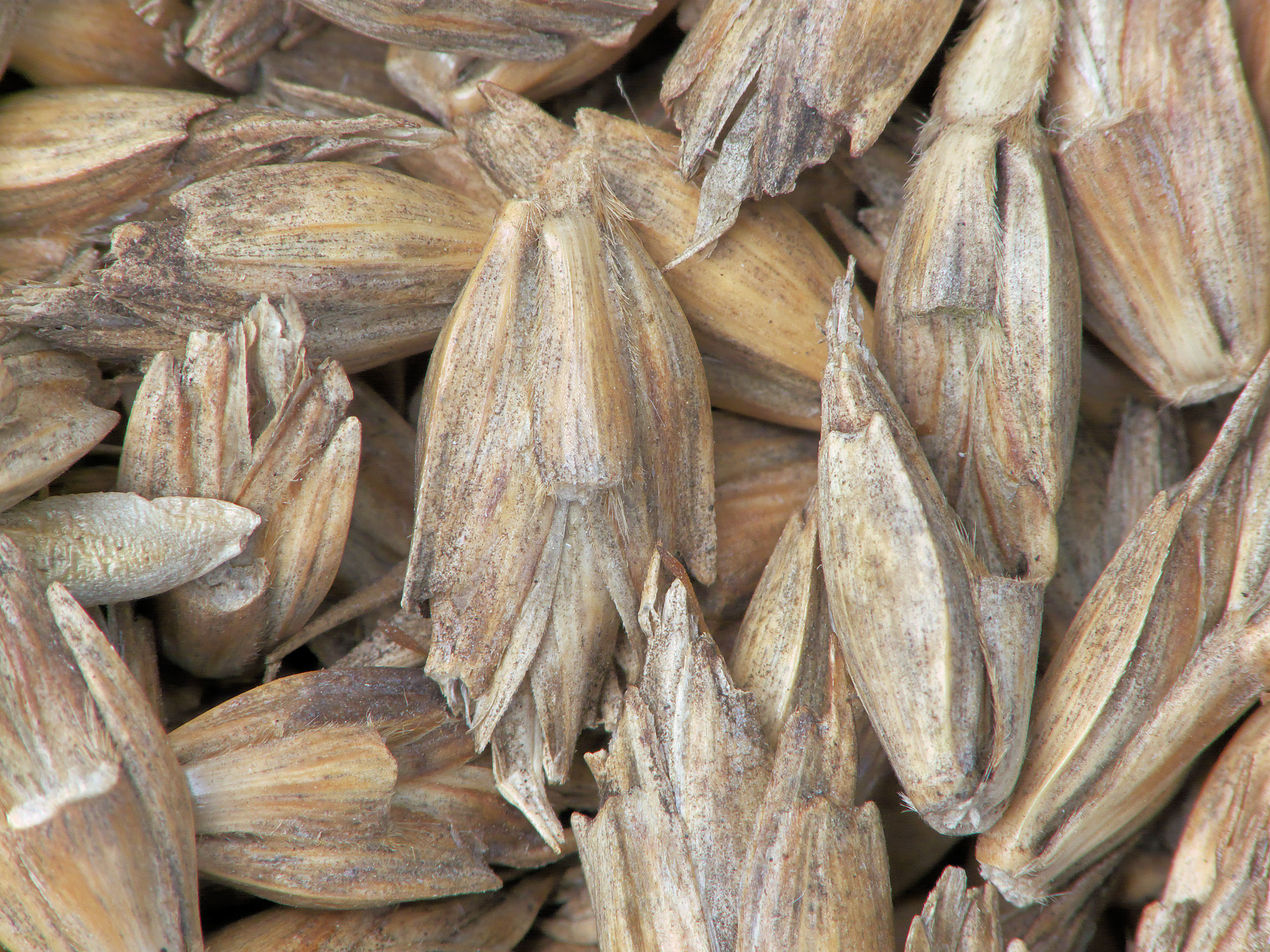 Triticum spelta spikelets